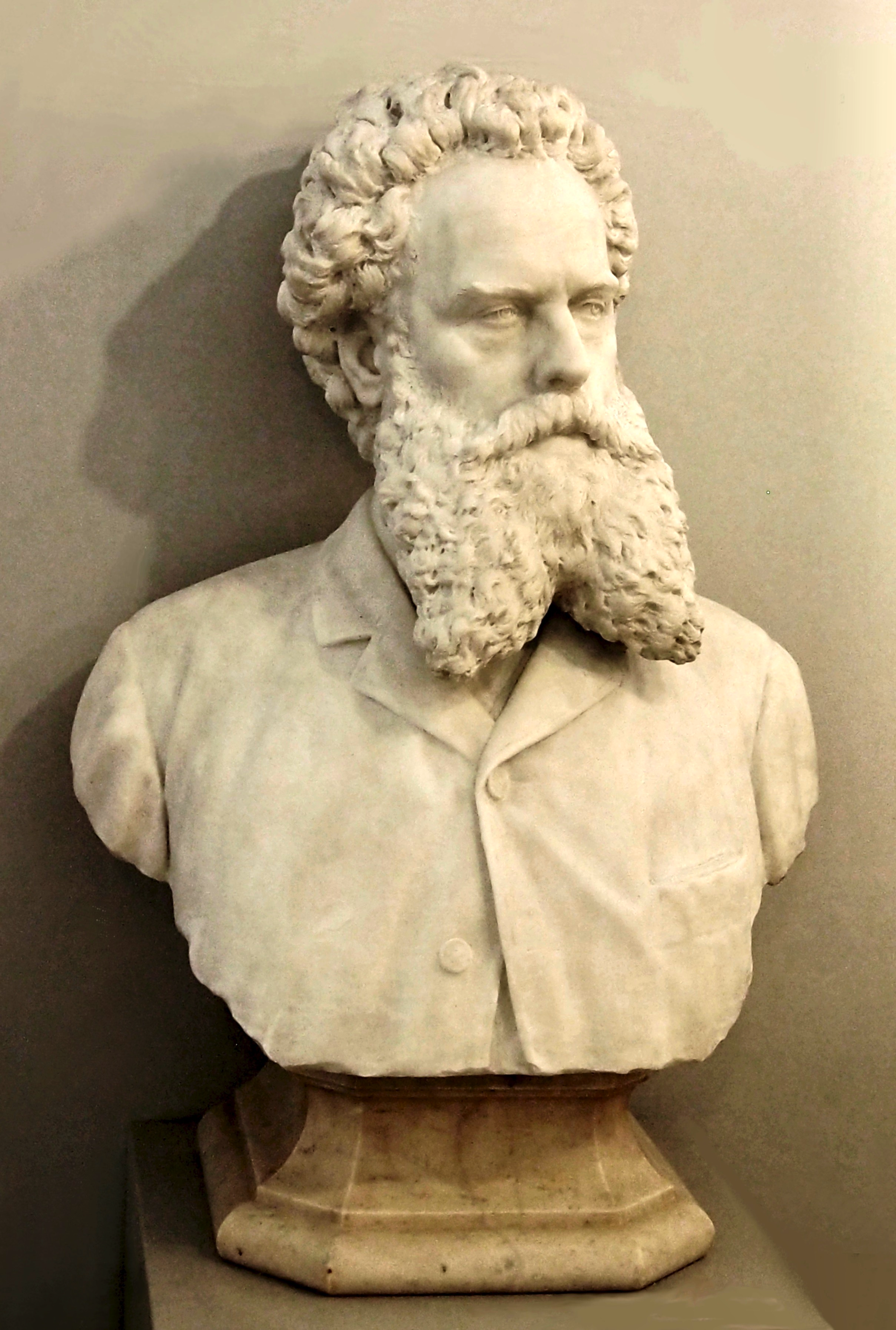 Bust of marble of the German merchant Christoph Friedrich Fanck (1846–1906), director of a company in the sugar industry, precursor of Südzucker. He was the father of film maker Arnold Fanck (1889–1974)